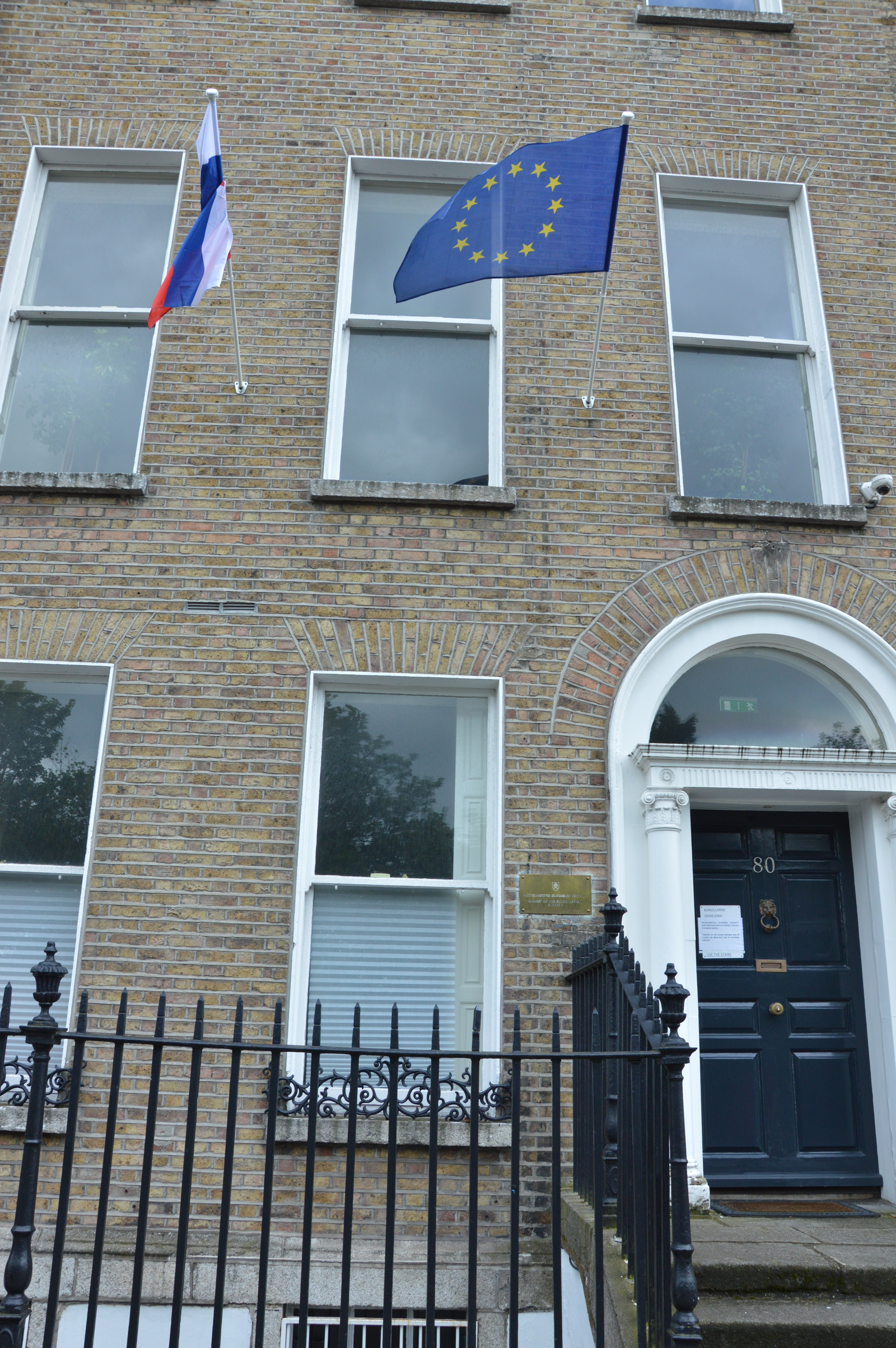 Embassy of Slovakia in Dublin, Ireland.